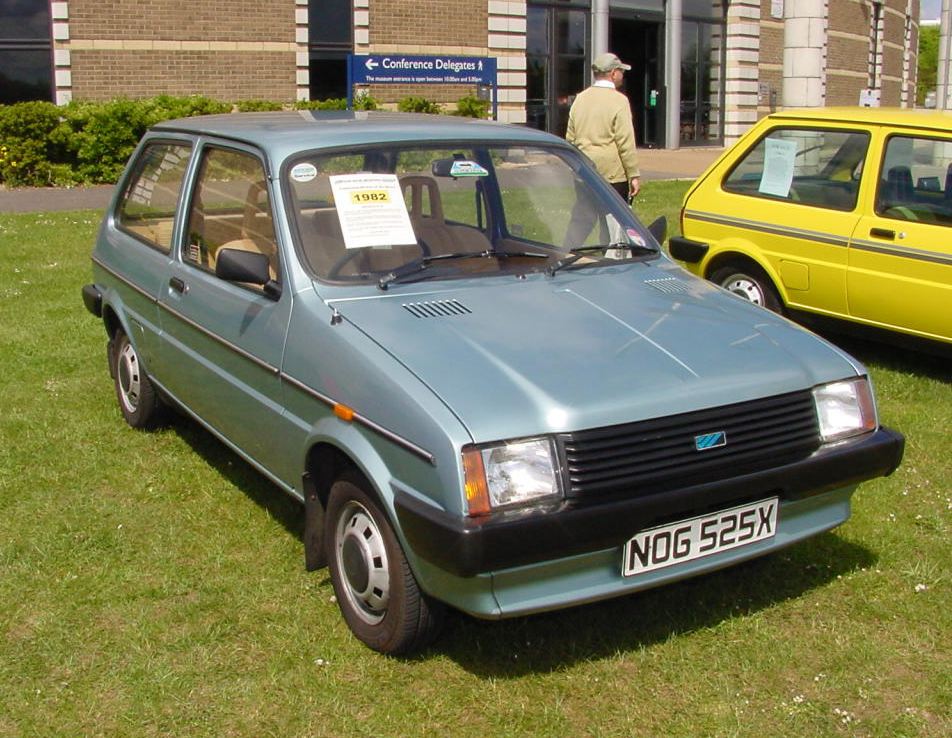 March 1982 blue Austin Metro 1.3. Metro 30th Anniversary at Heritage Motor Centre, Gaydon, UK